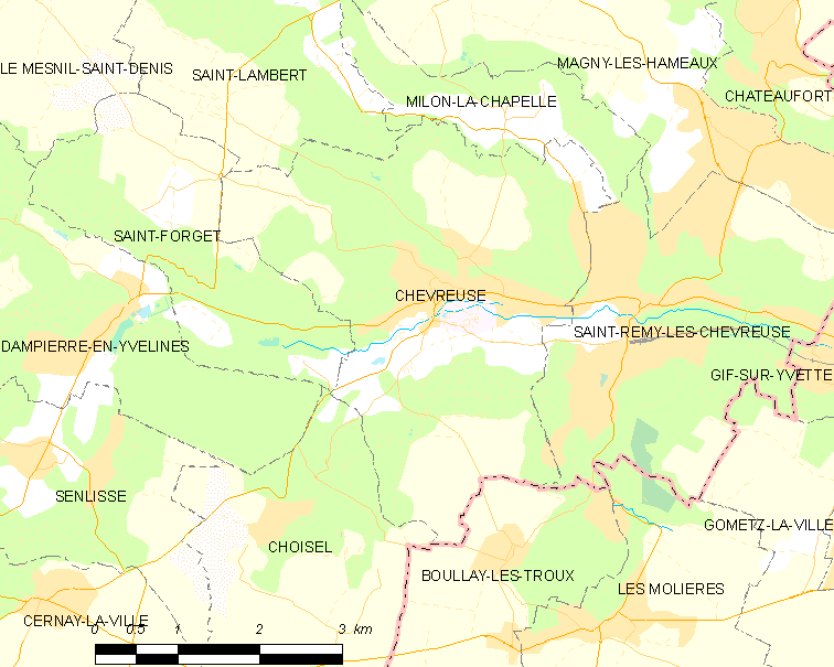 Map of French municipality Chevreuse